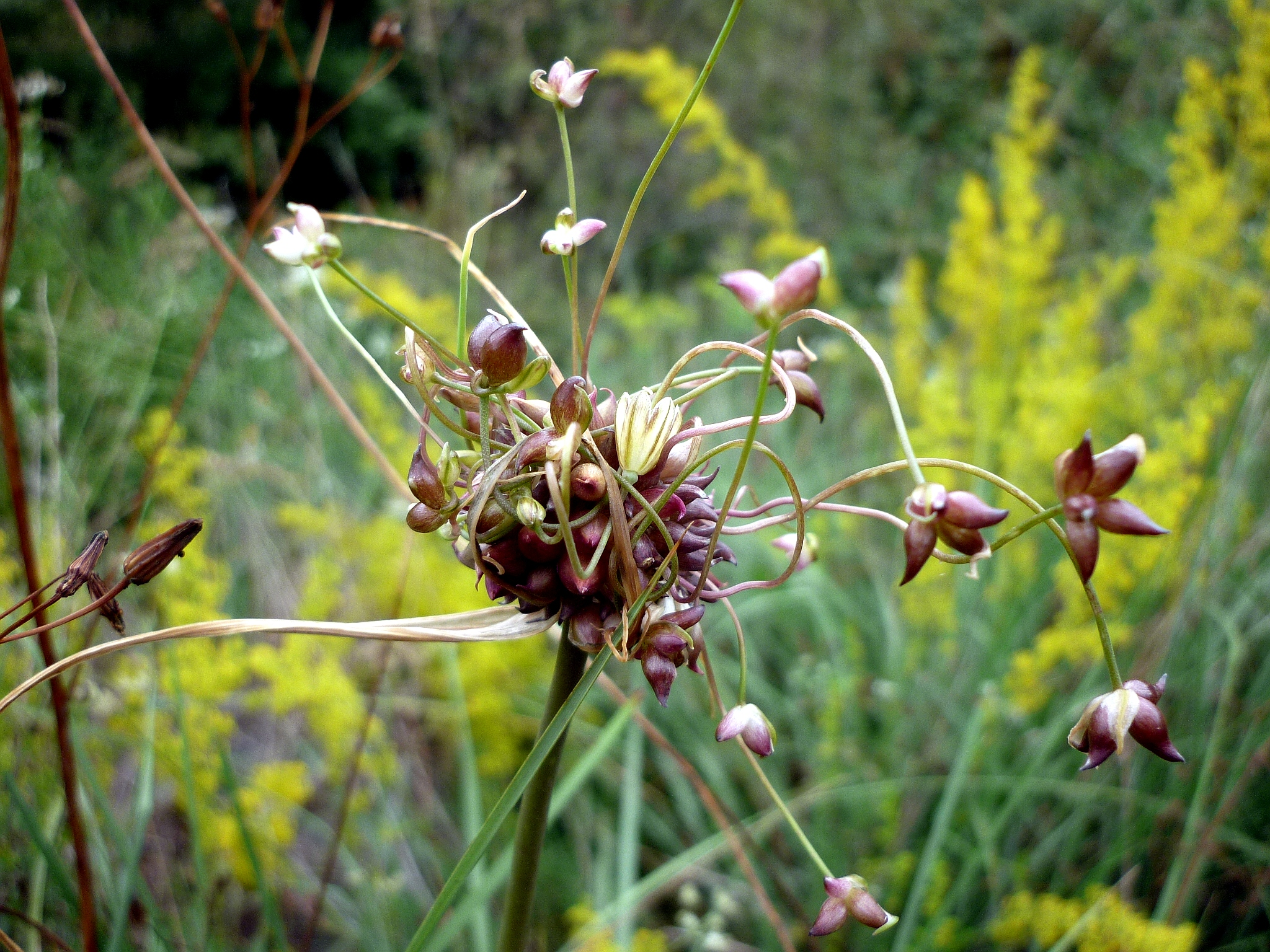 Allium oleraceum. In Torà (Segarra- Catalunya). On 600 m. altitude